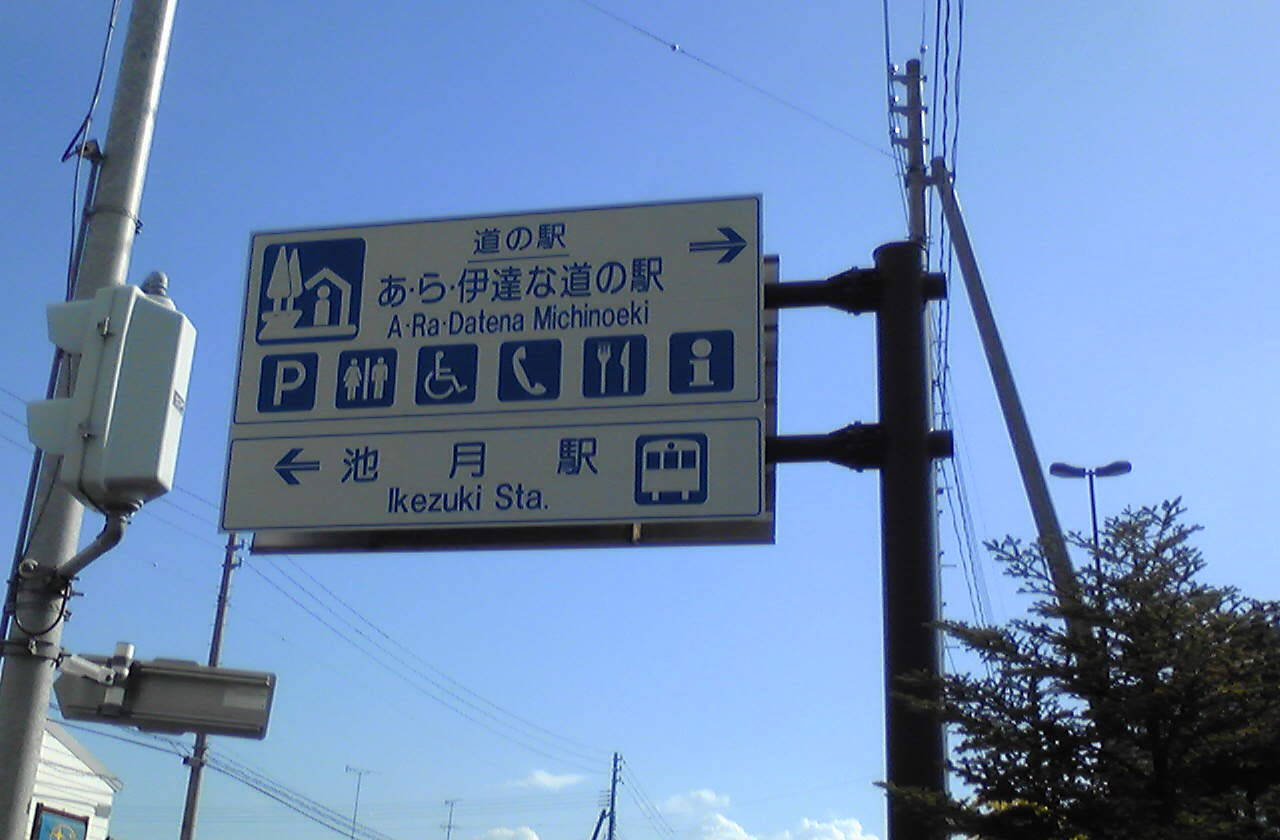 Road sign for Michinoeki A-Ra-Datena Michinoeki and Ikezuki Station, located on the Route 47 in Osaki City, Miyagi Prefecture, Japan